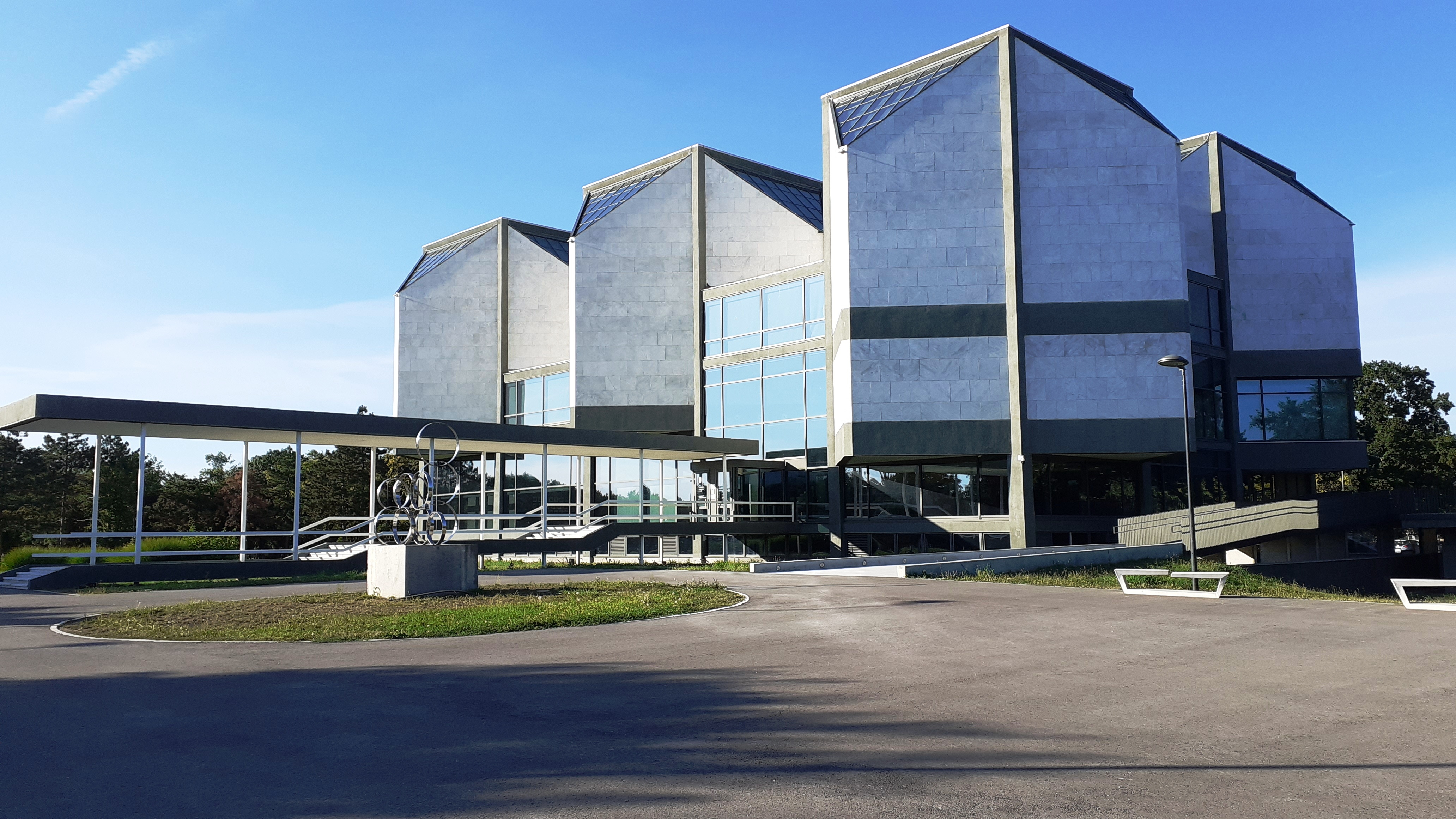 Museum of Contemporary Art, Ušće Park, New Belgrade